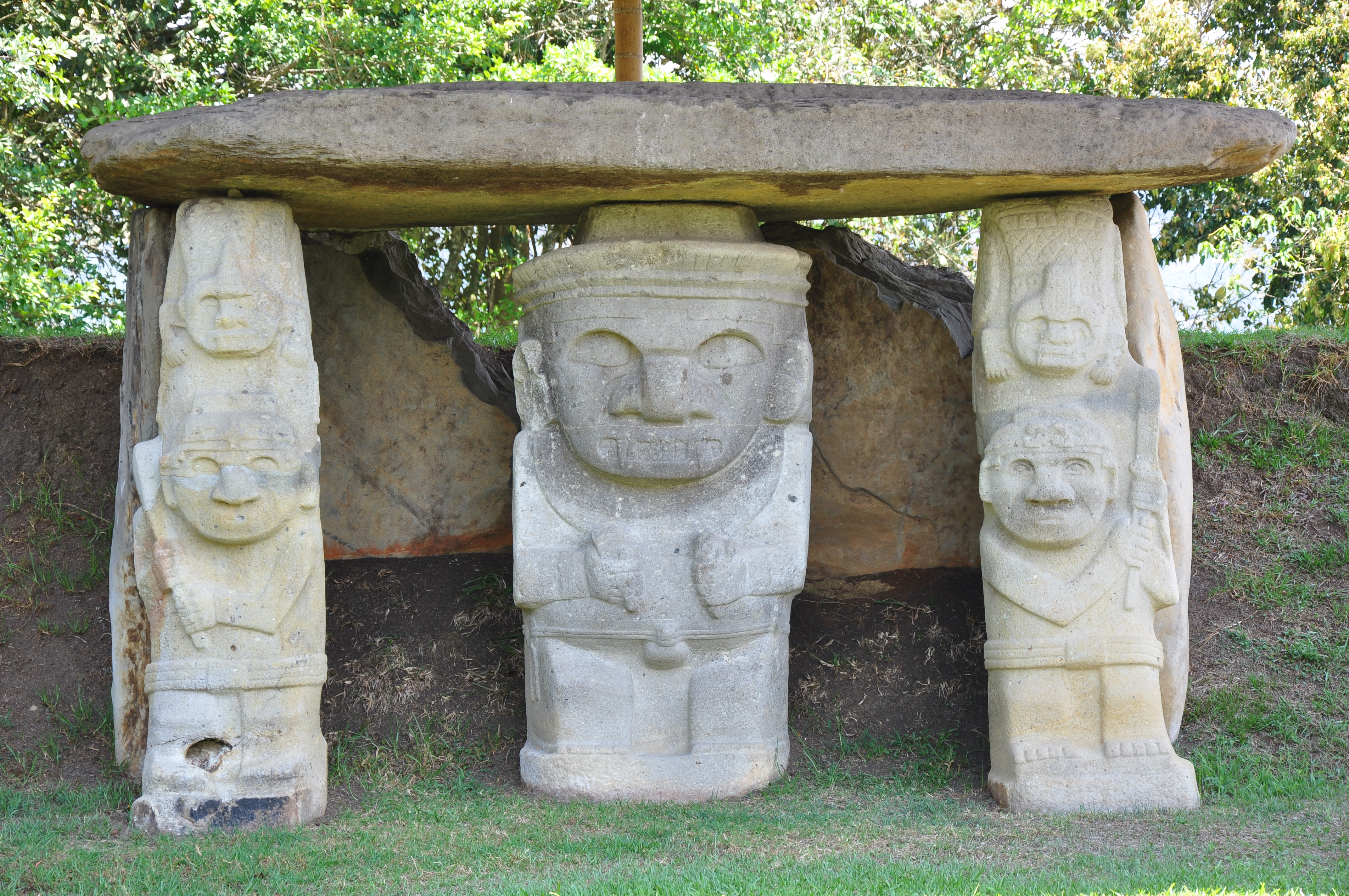 The San Agustín Archaeological Park, located on the Department of Huila, is the only place in the world highlighted by 500 imposing stone statues carved in accordance to the mythology of their Indian sculptors. Most of the statues were part of the funerary paraphernalia of the ancient inhabitants of the area and were related to funerary rites, the spiritual power of the dead, and the supernatural world. The monumental character of the stone statues and the tombs is a reflection of the complex thought system these unknown cultures carved and immortalized in stone. [